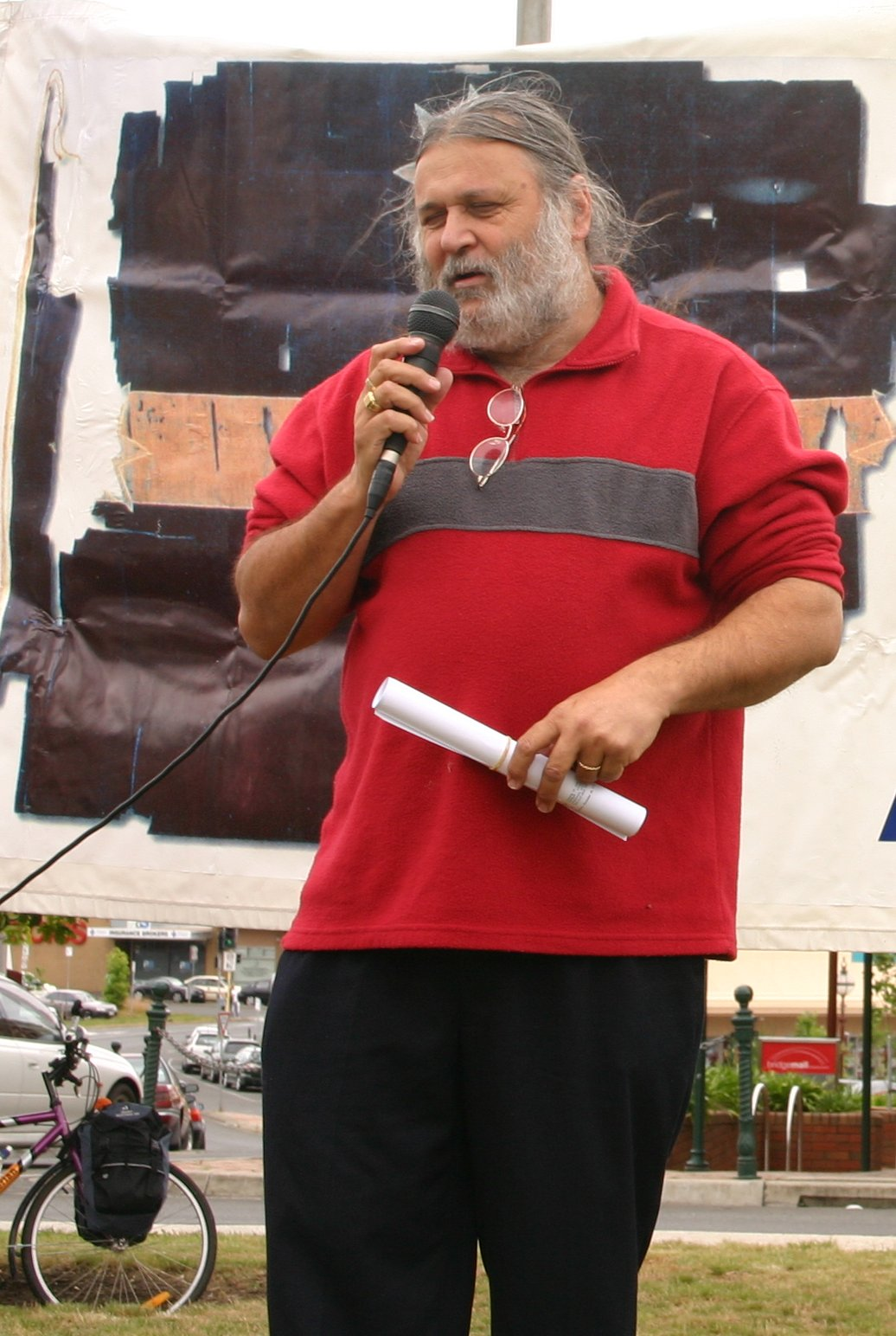 Joseph Toscano at Bakery Hill in Ballarat, Victoria, Australia.